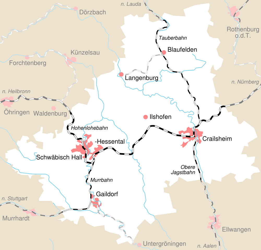 railway map of German district of Schwäbisch Hall. please see User:Kjunix/BahnNWB for comments.